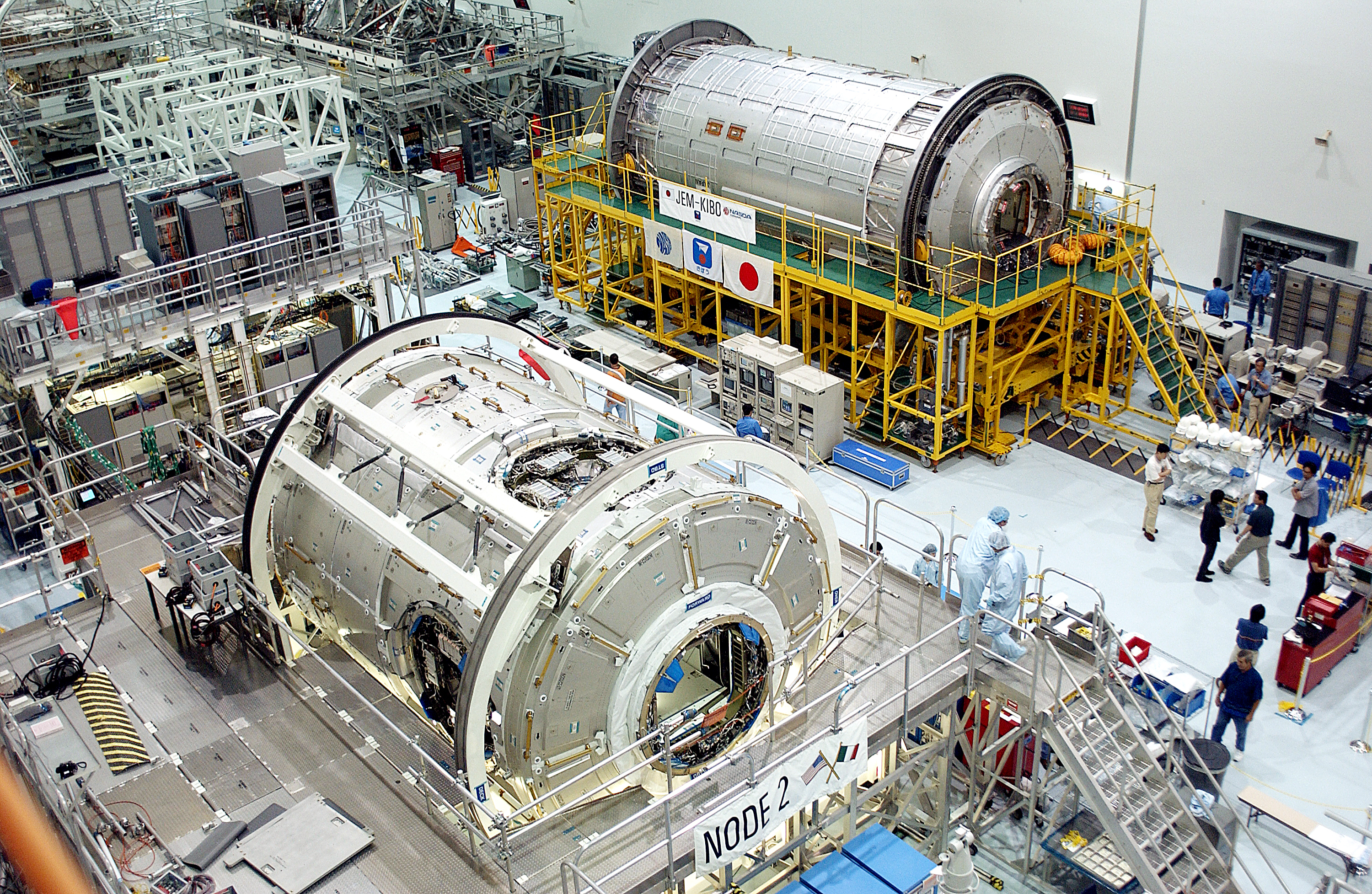 Node 2 and Japanese Experimental Module (JEM) In Space Station Processing Facility